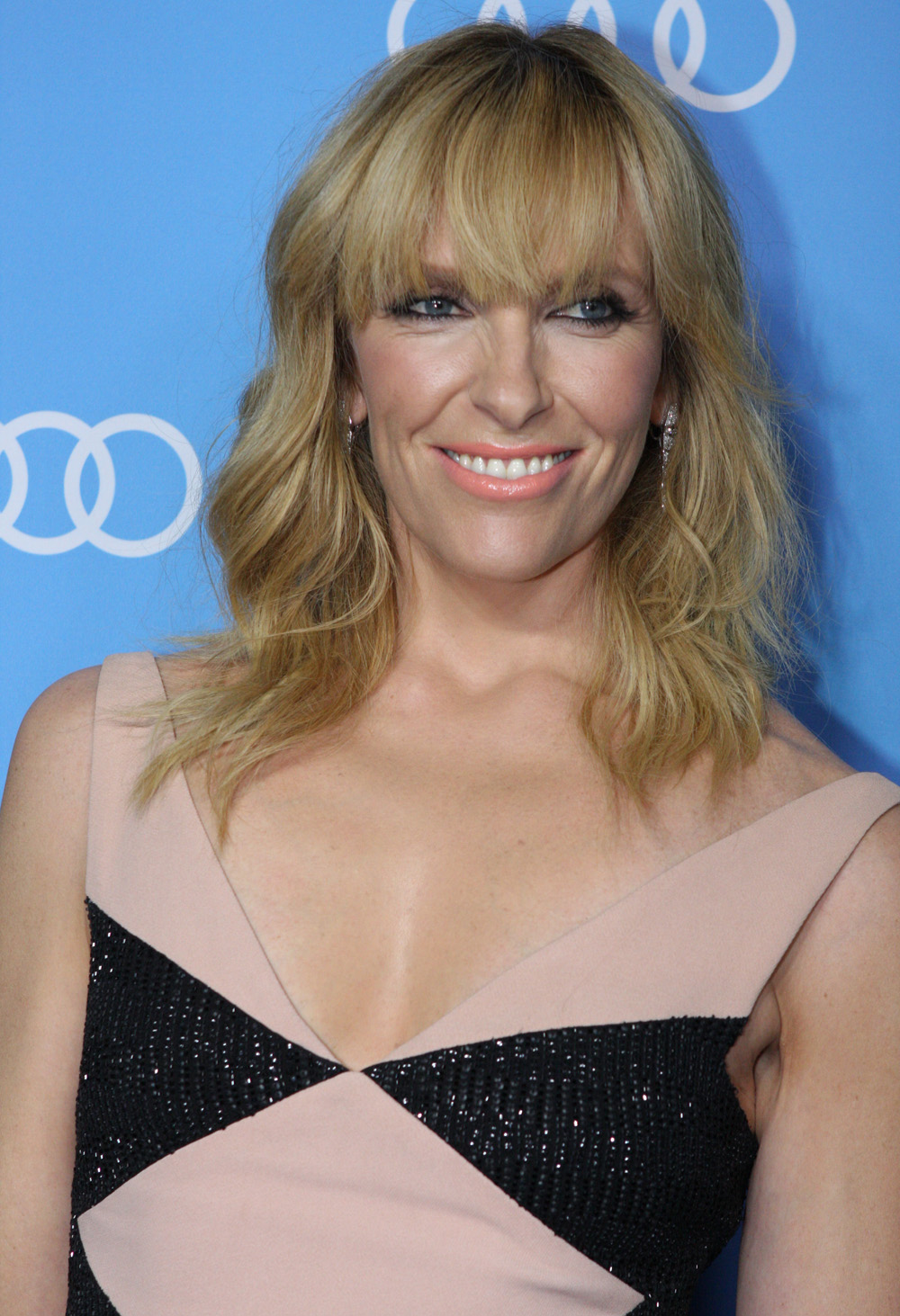 Toni Collette at The Way Way Back premiere at the State Theatre, Sydney